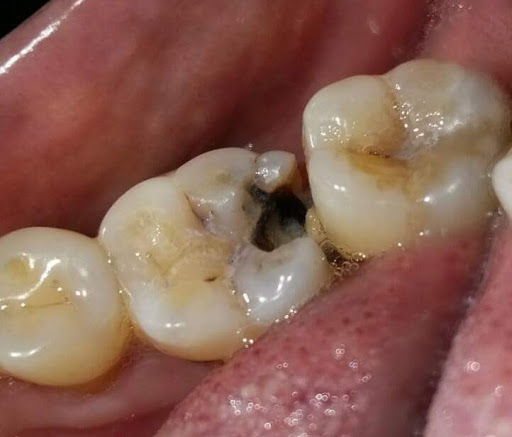 A class 2 cavity showing dental caries on the distal surface of lower first molar